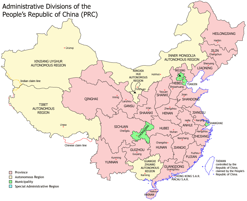 This is a GIF copy of the PNG image originally created by Ran. When scaled for use in wikipedia templates and articles it uses a lot less kilobytes than the scaled PNG image. The image quality is the same since there are only 64 unique colors in the image. GIF can accommodate up to 256 unique colors.